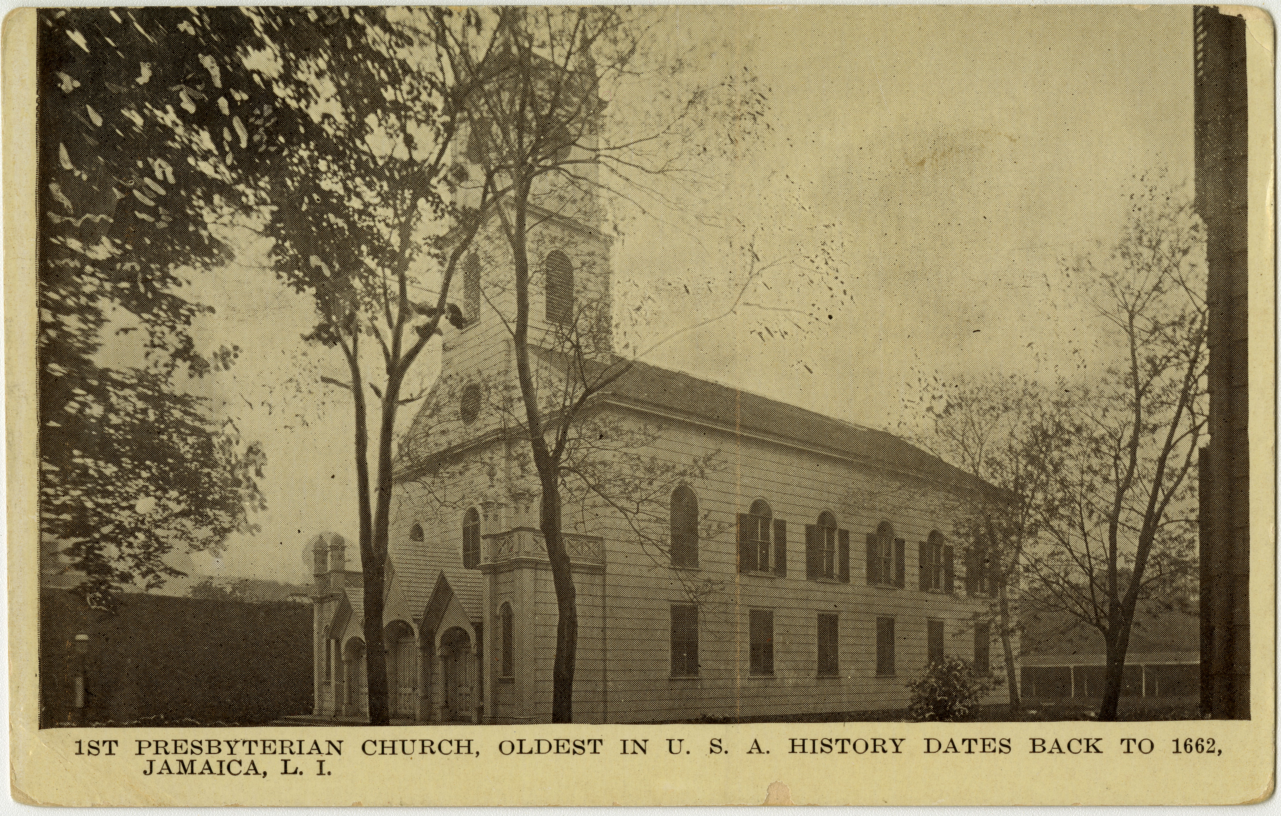 Presbyterian church in Jamaica, Queens, New York from a pre-1923 postcard From RG 428, Postcard Collection, Presbyterian Historical Society, Philadelphia, Pennsylvania.